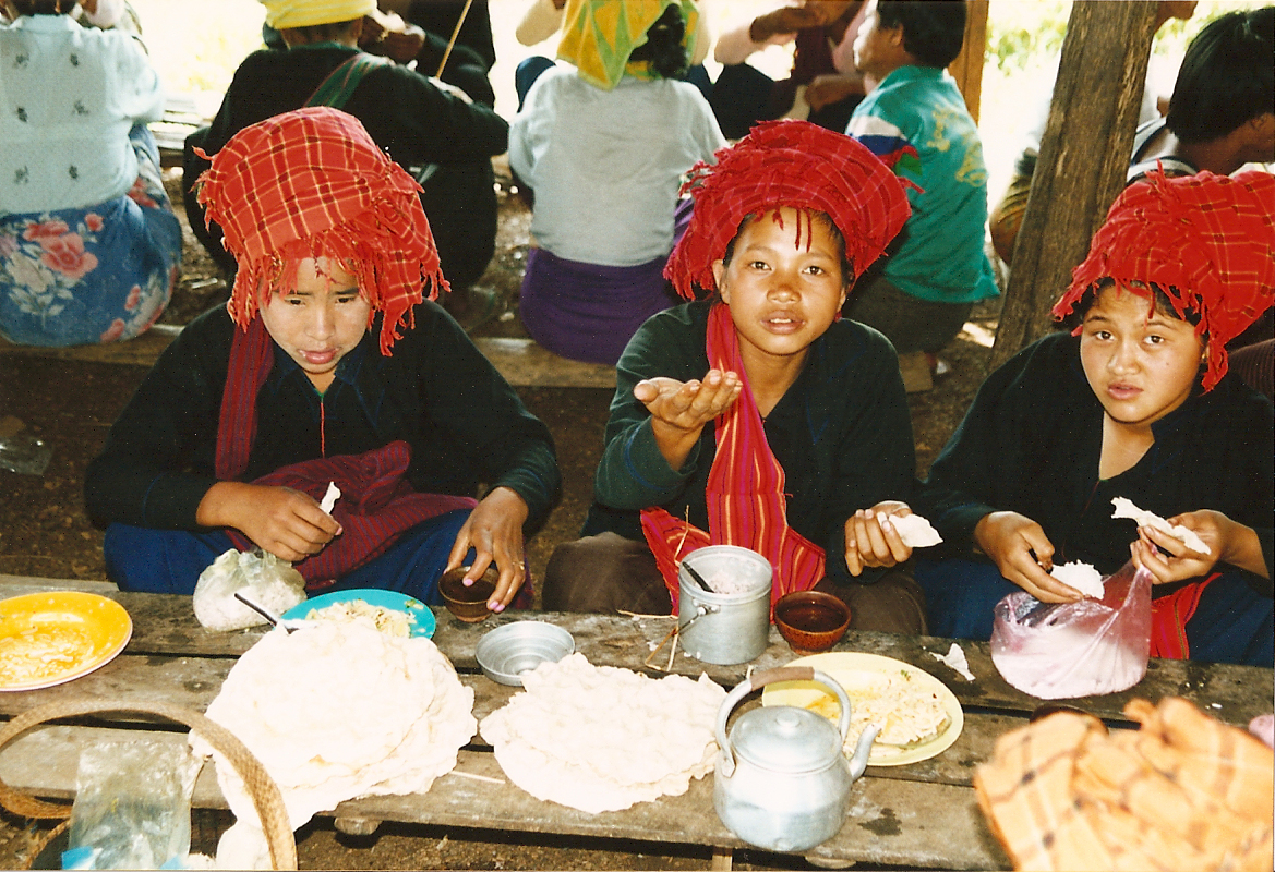 Ethnic Pa-O women at restaurant stall